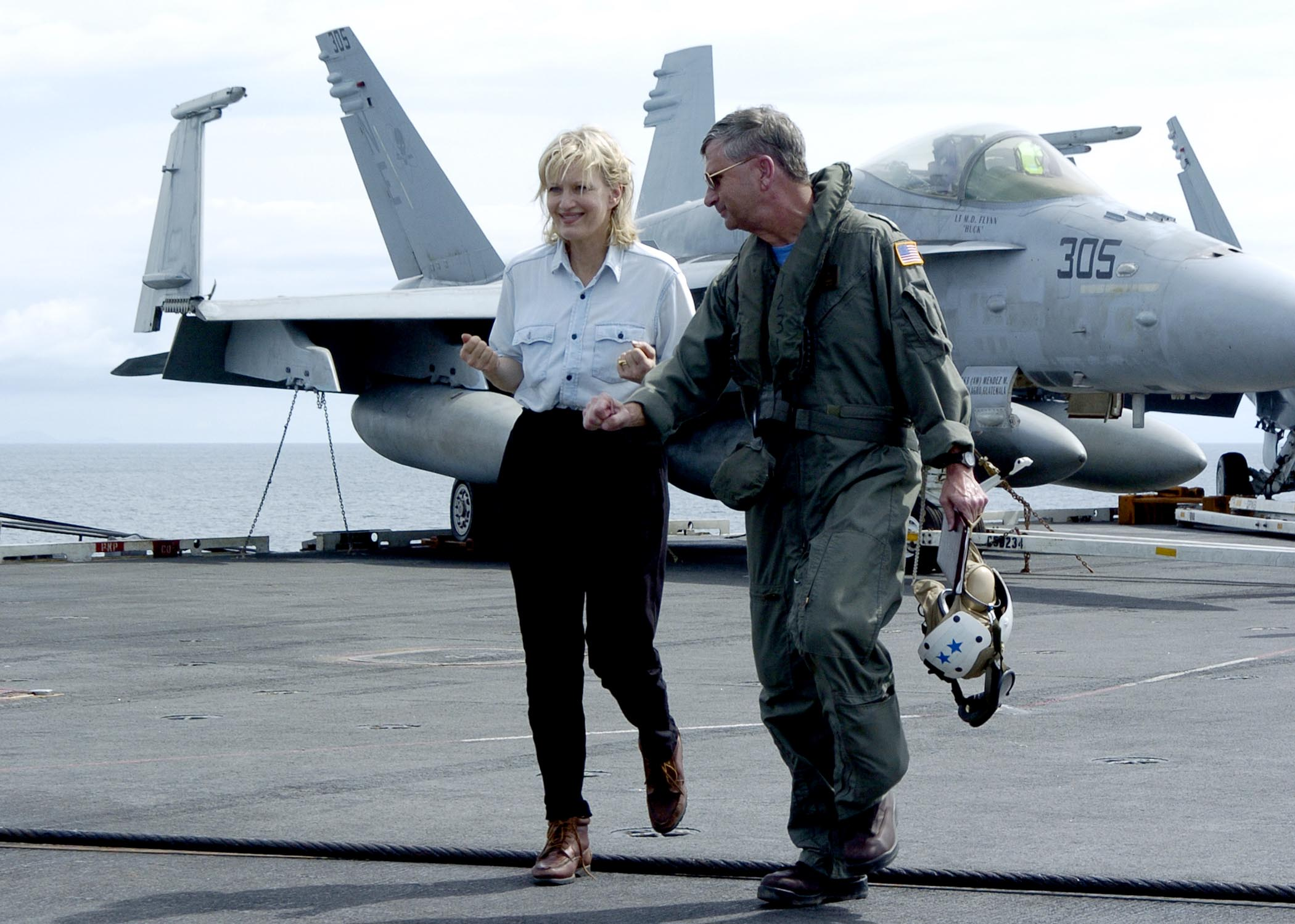 Indian Ocean (Jan. 5, 2005) - Journalist Diane Sawyer walks with Commander, Carrier Strike Group Nine (CSG 9), Rear Adm. Doug Crowder, on the flight deck aboard USS Abraham Lincoln (CVN 72). Sawyer came aboard Abraham Lincoln to report on the aircraft carriers role in the humanitarian assistance efforts. Helicopters assigned to Carrier Air Wing Two (CVW-2) and Sailors from Abraham Lincoln are conducting humanitarian operations in the wake of the Tsunami that struck South East Asia. The Abraham Lincoln Carrier Strike Group is currently operating in the Indian Ocean off the waters of Indonesia and Thailand. U.S. Navy photo by Photographer's Mate 3rd Class Tyler J. Clements (RELEASED)